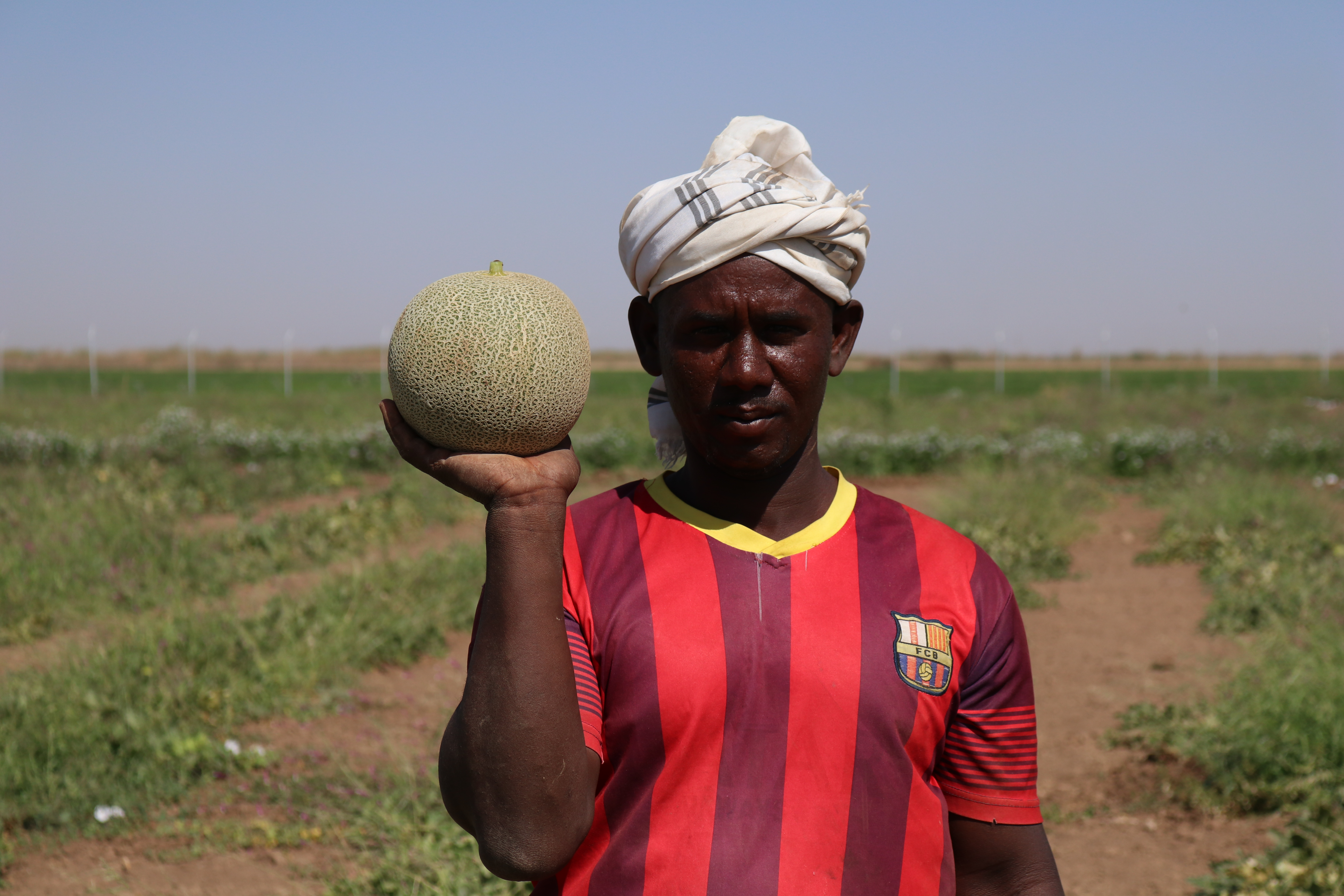 عامل من السودان يستعرض انتاج محصول مزرعته من فاكهة الشمام القاليا في إحدى المزارع جنوب العاصمة الخرطوم